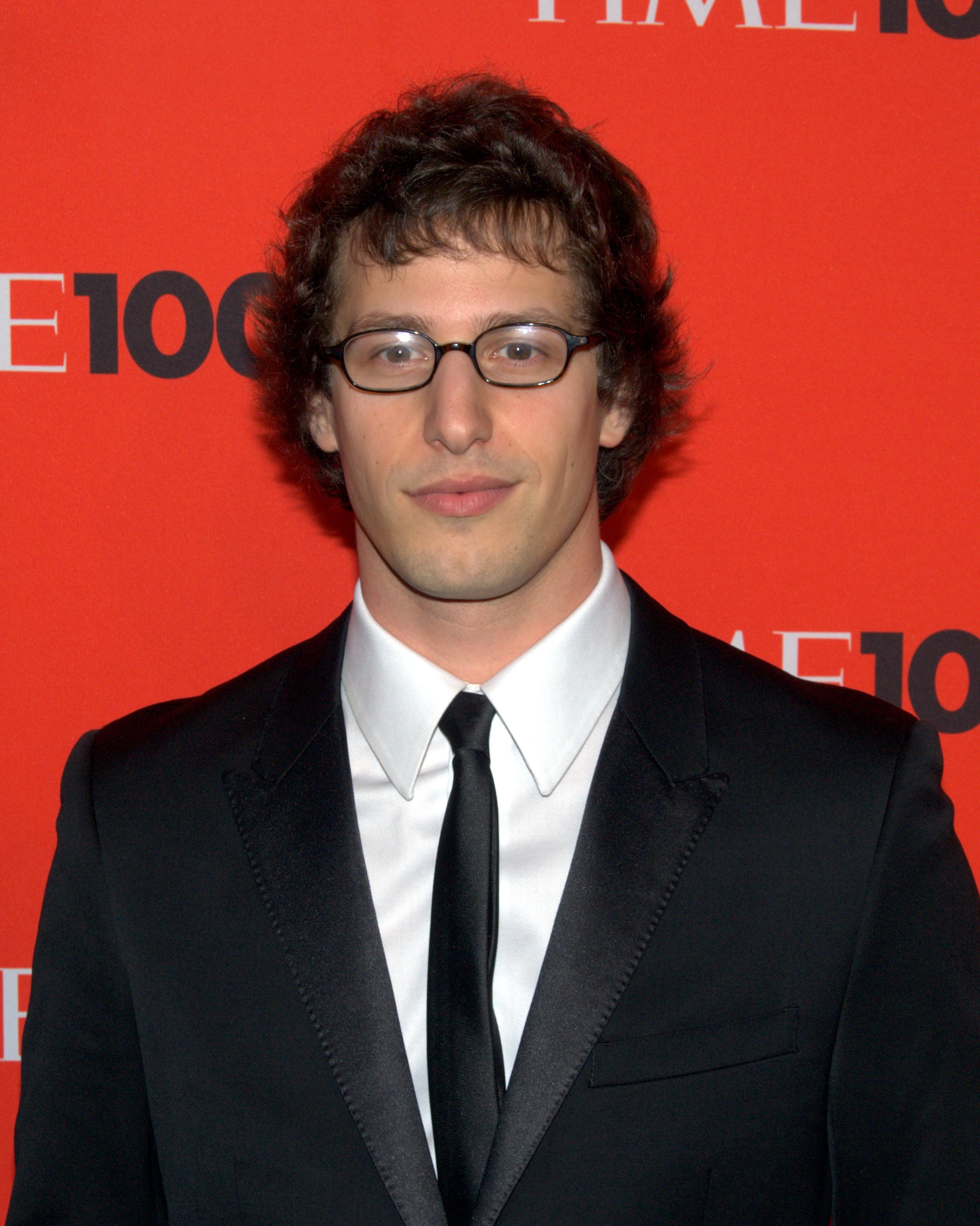 Andy Samberg at Time 100 Gala 2010 The Finest Man